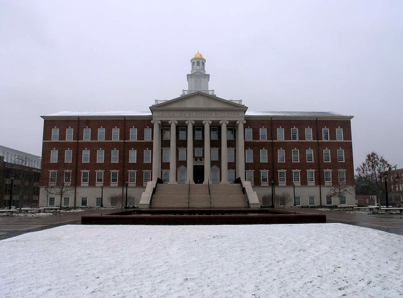 22 December